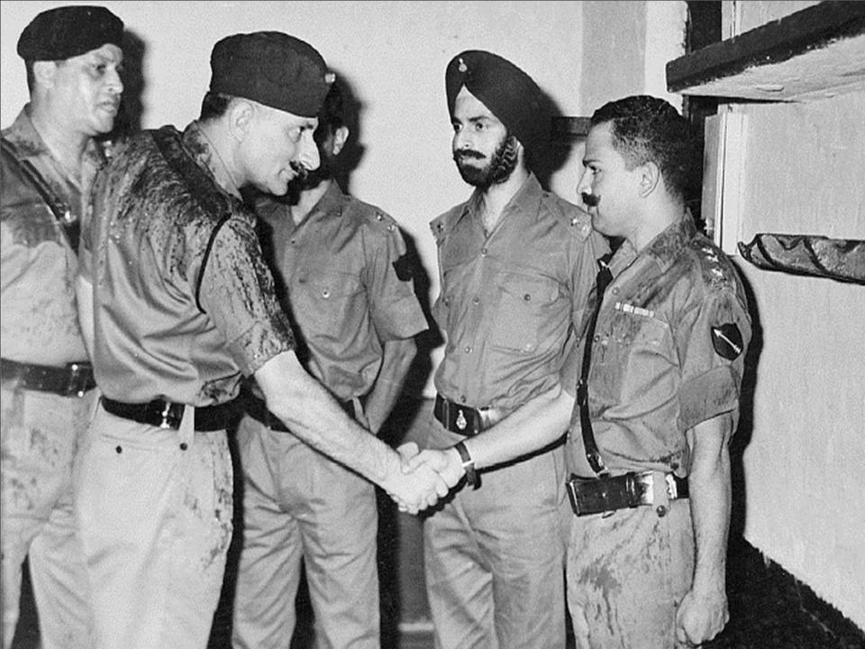 Fd Marshal Manekshaw visiting Regt